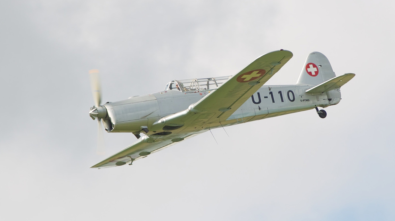 Pilatus P-2 trainer at Sywell Air Show, 24 September 2008